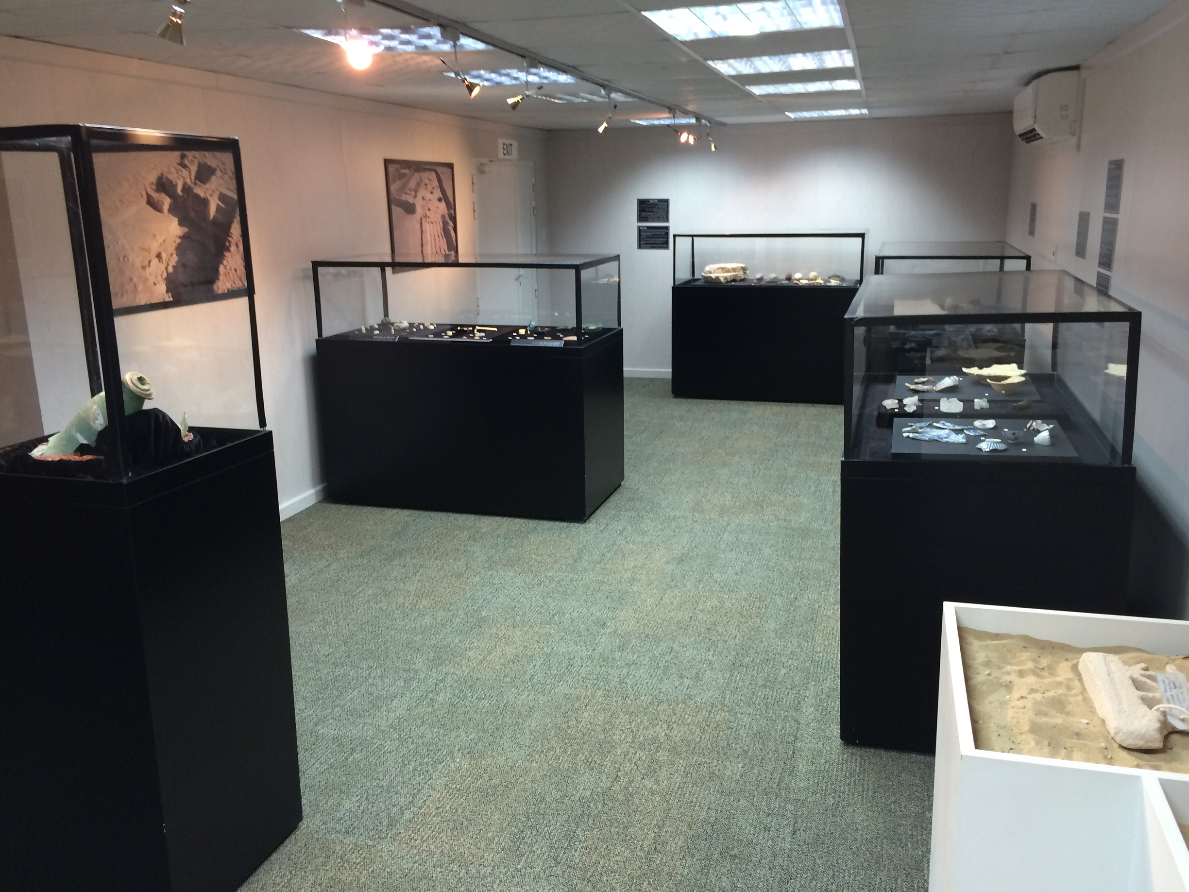 Small UNESCO museum at Zubarah fort (northern Qatar) with artifacts from the nearby ruined city of Zubarah.